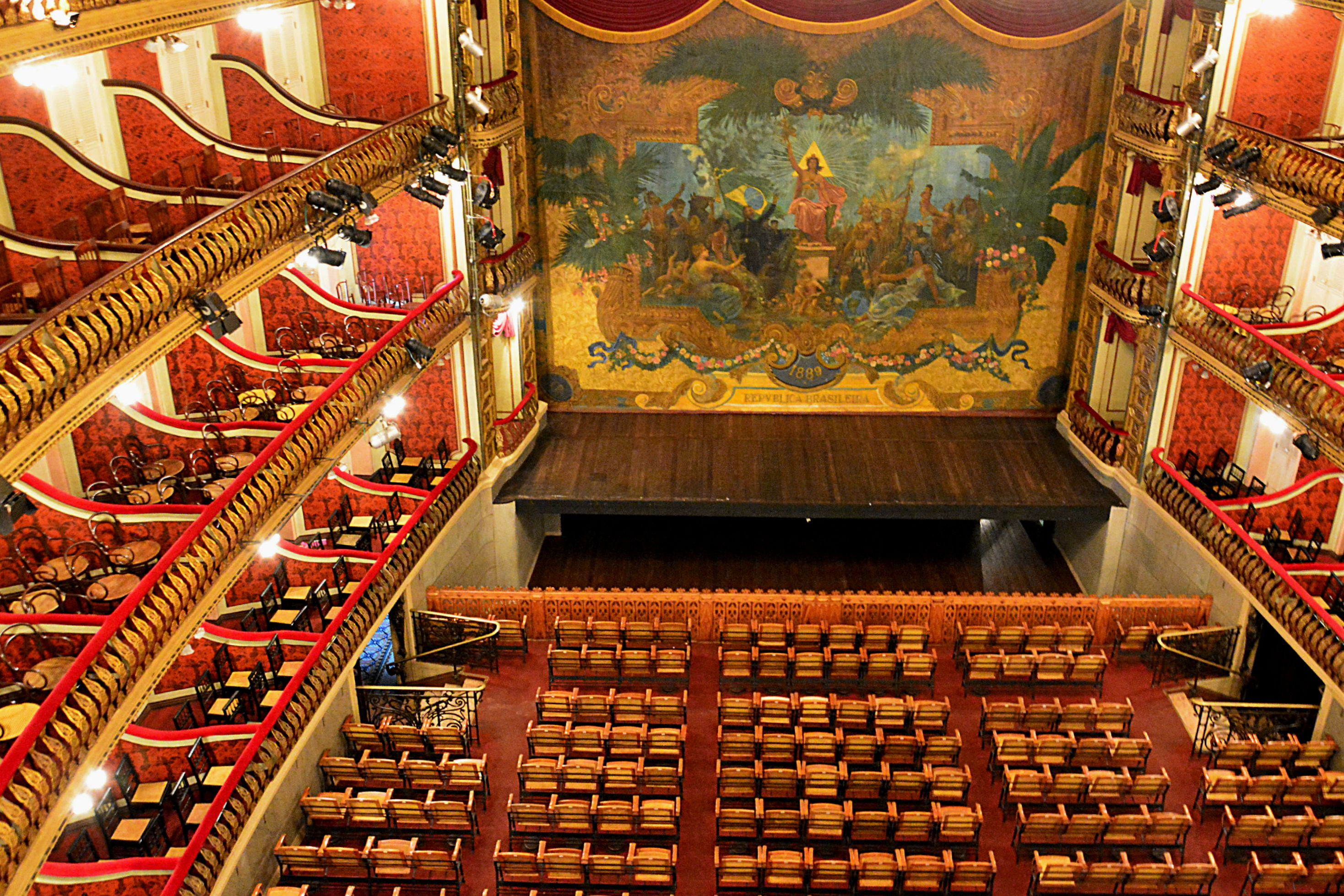 Theater of Peace